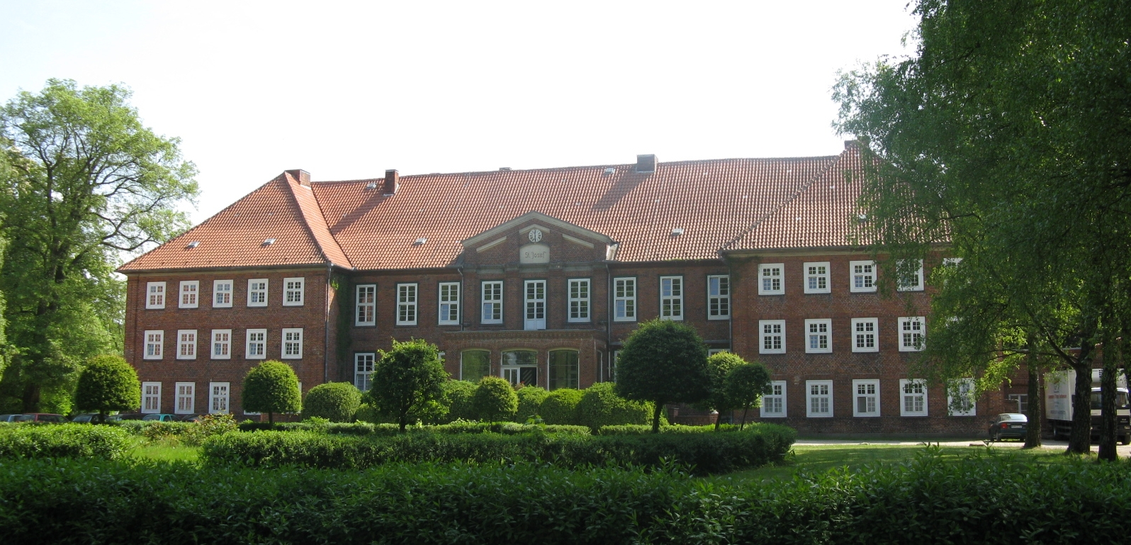 Dreilützow Castle, Mecklenburg-Vorpommern, Germany